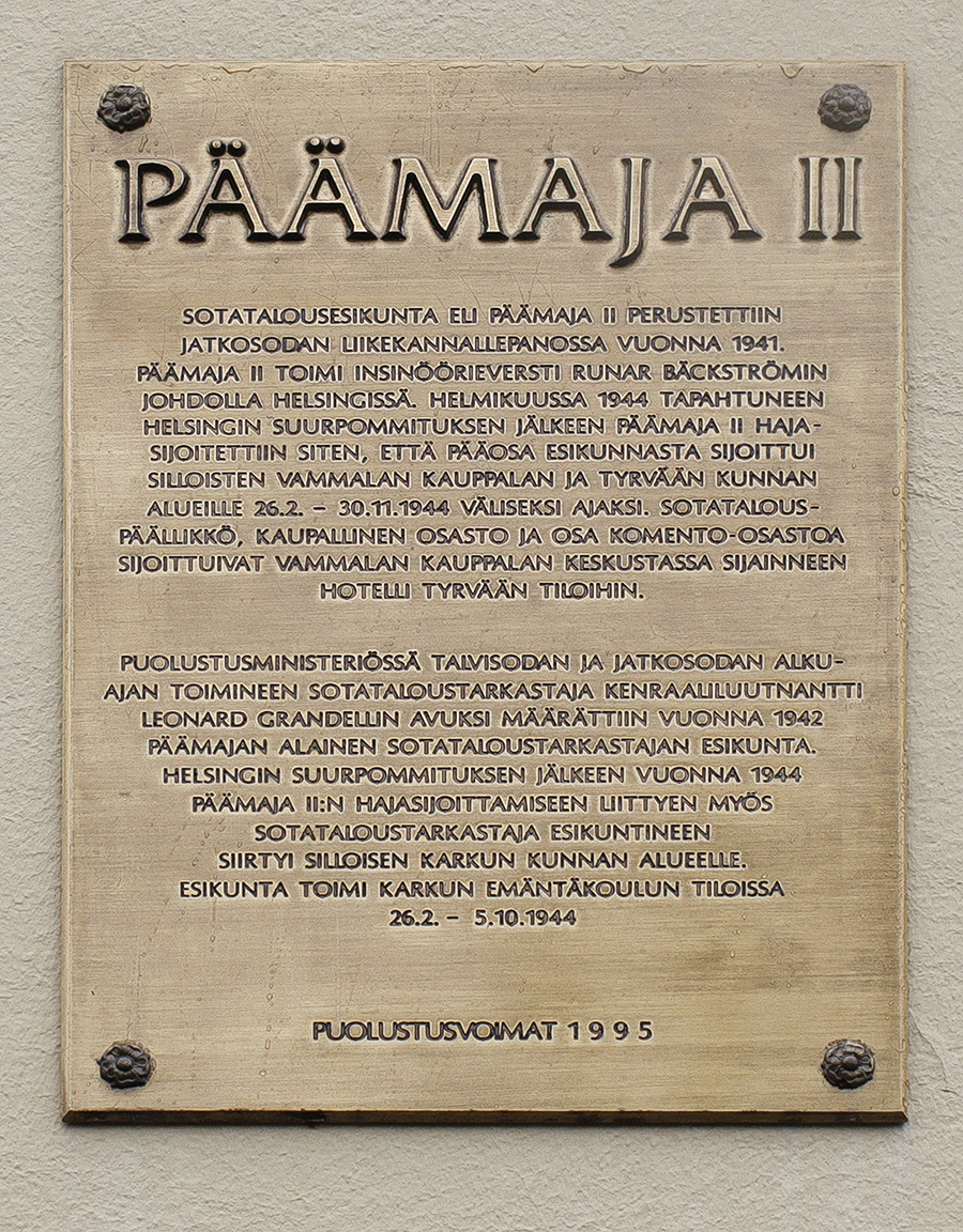 Karkun kotitalous- ja sosiaalialan oppilaitoksen päärakennuksen seinään 1995 kiinnitetty muistolaatta